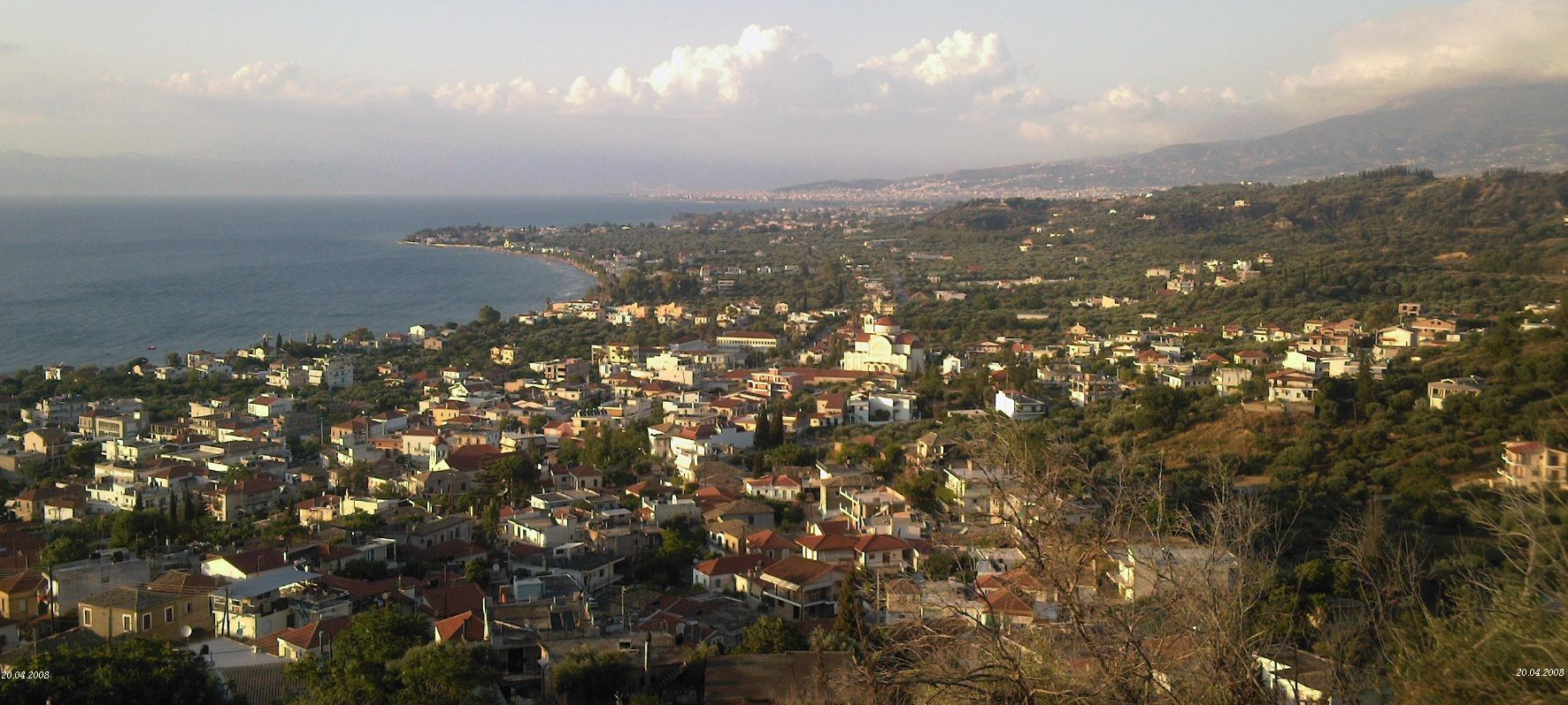 Panoramic view of Vrachneika, a small town within Patras Municipality, Achaia, Greece.